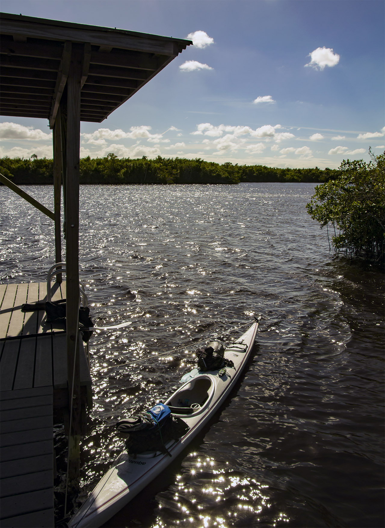 Sea Lion 17' kayak tied to the Chickee structure "Plate Creek Chickee"